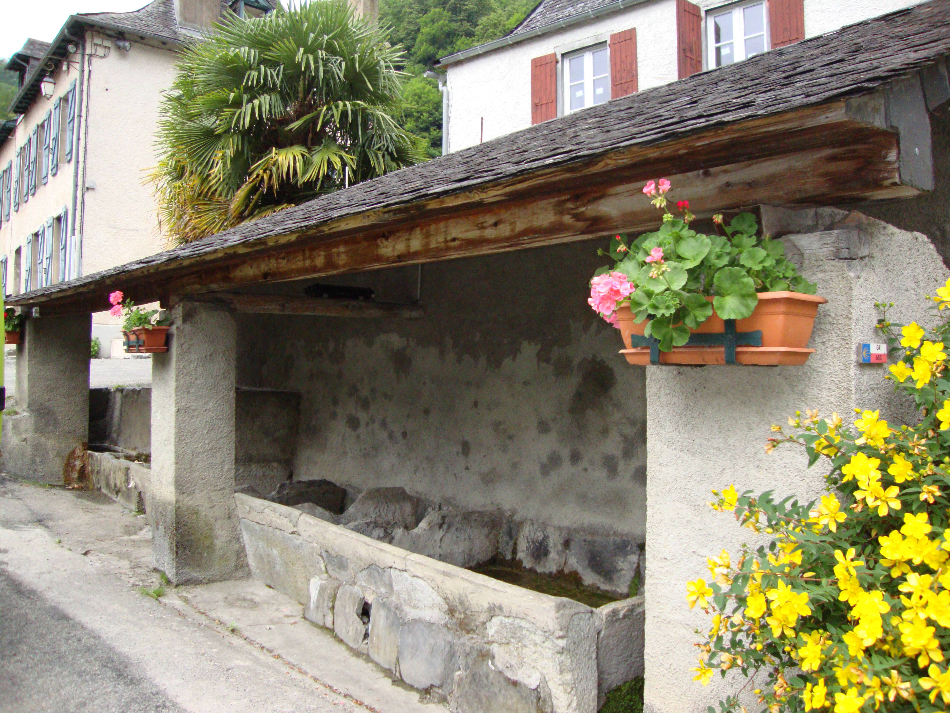 Sarrance (Pyr-Atl, Fr) wash house.